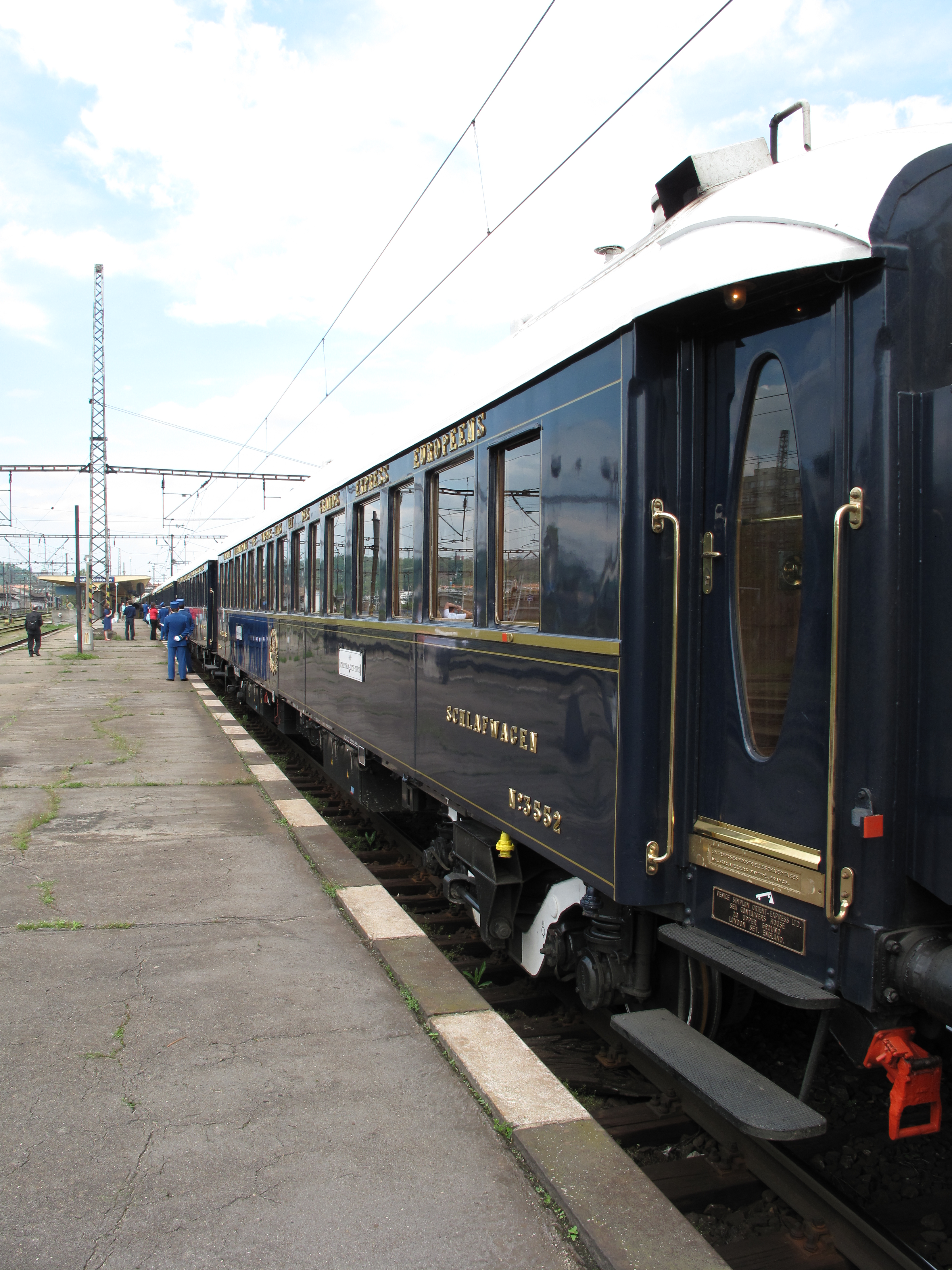 Orient Express train in Praha Smíchov Station, Prague, Czech Republic.